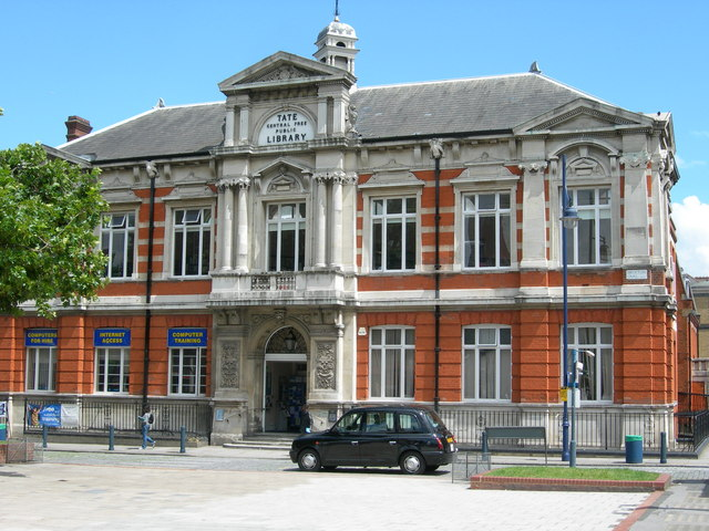 Tate Library, Brixton. This library is on the corner of Brixton Oval and Rushcroft Road. It was sponsored by the sugar magnate Sir Henry Tate.